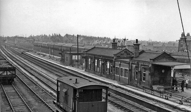 Bulwell Common Station. View southwards, towards Nottingham (Victoria); ex-Great Central 'London Extension' main line, (Annesley) - Nottingham - Leicester (Central) - Maryledone, closed (down to Quainton Road and Aylesbury) 5/9/66. This station was closed on 4/3/63, just four months before the photograph. (There is no trace of the railway there 45 years later).